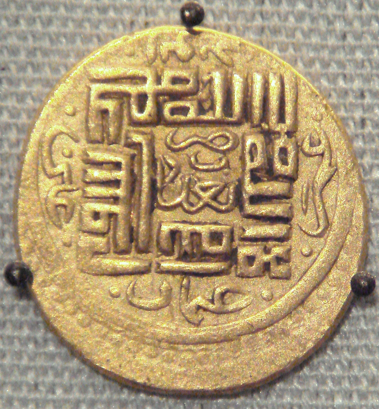 Jalayrids_Baghdad_1382_1387